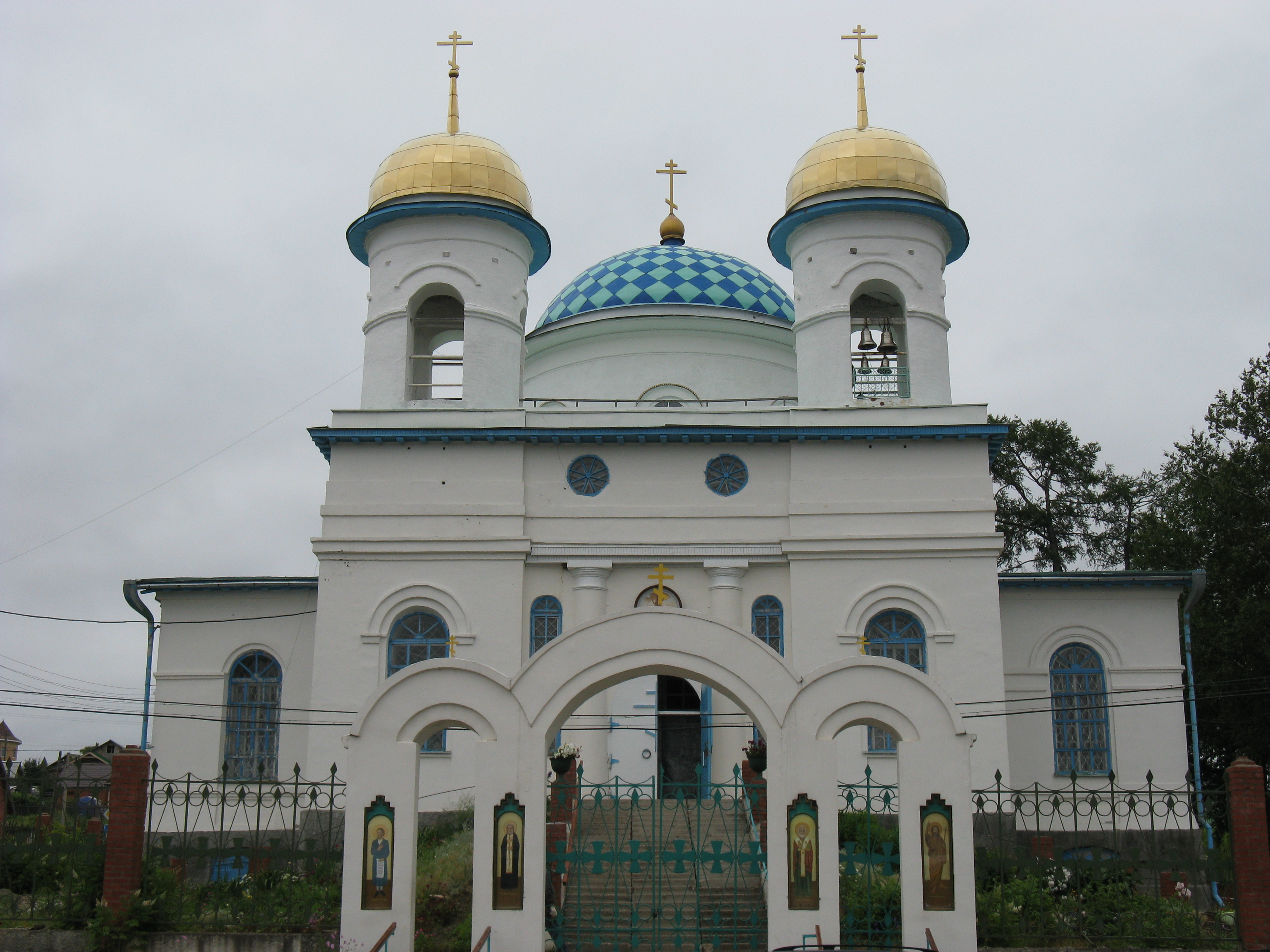 Holy Trinity Church in Polazna in Perm Krai